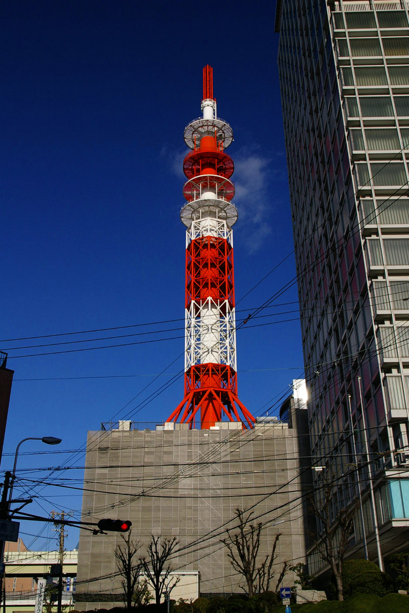 NTT Telepark Dojima, no-1 Bldg, Osaka city, Japan